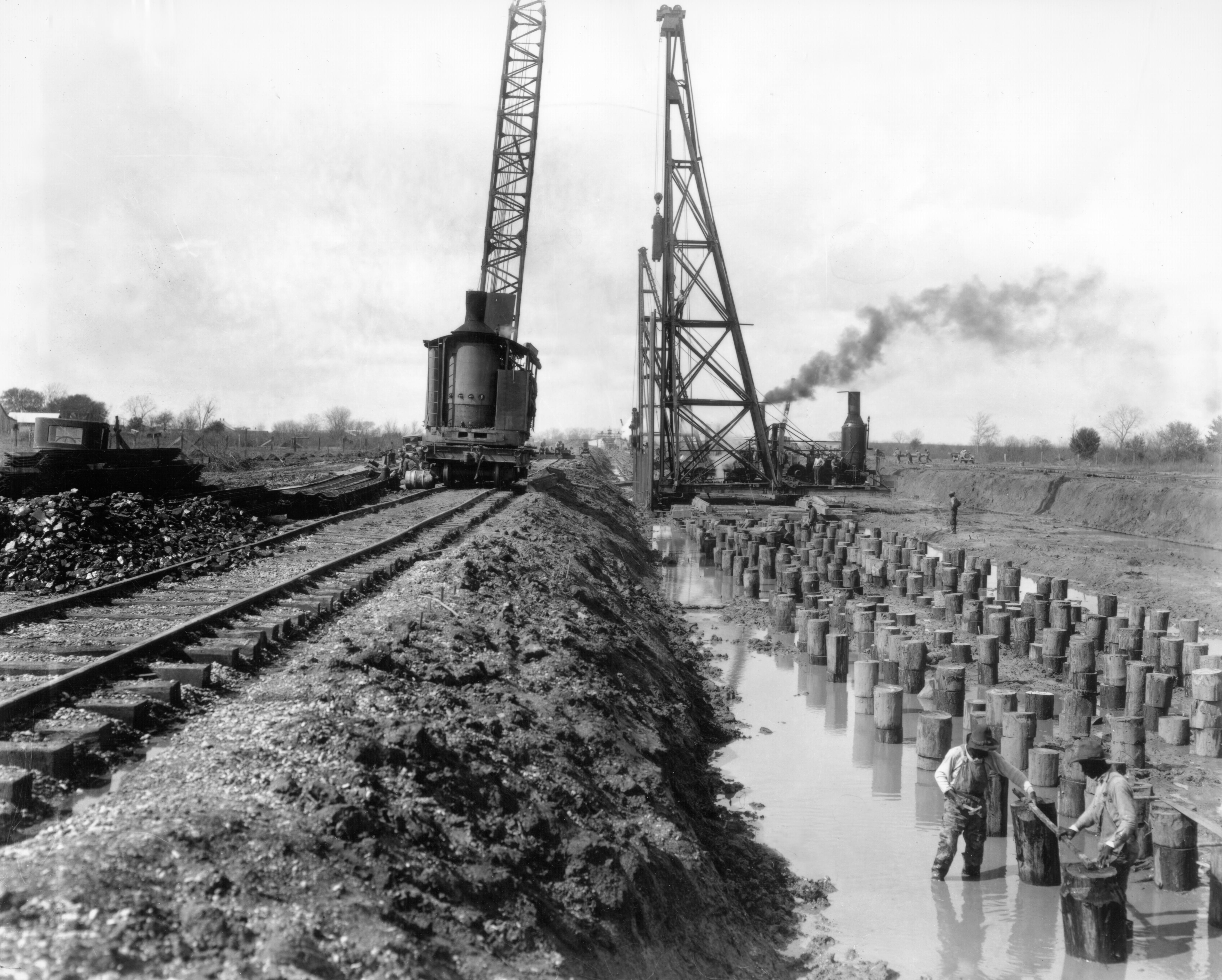 Construction of Bonnet Carré Spillway, Louisiana, 1929. One of the Corps numerous archived photographs that show navigations, flood fighting, and life along the Mississippi River (Courtesy of the U.S. Army Corps of Engineers)